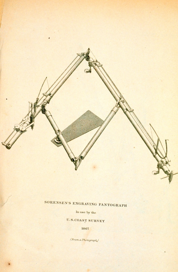 Sorenson's engraving pantograph. Fig. No. 27, Report of Superintendent ... 1867